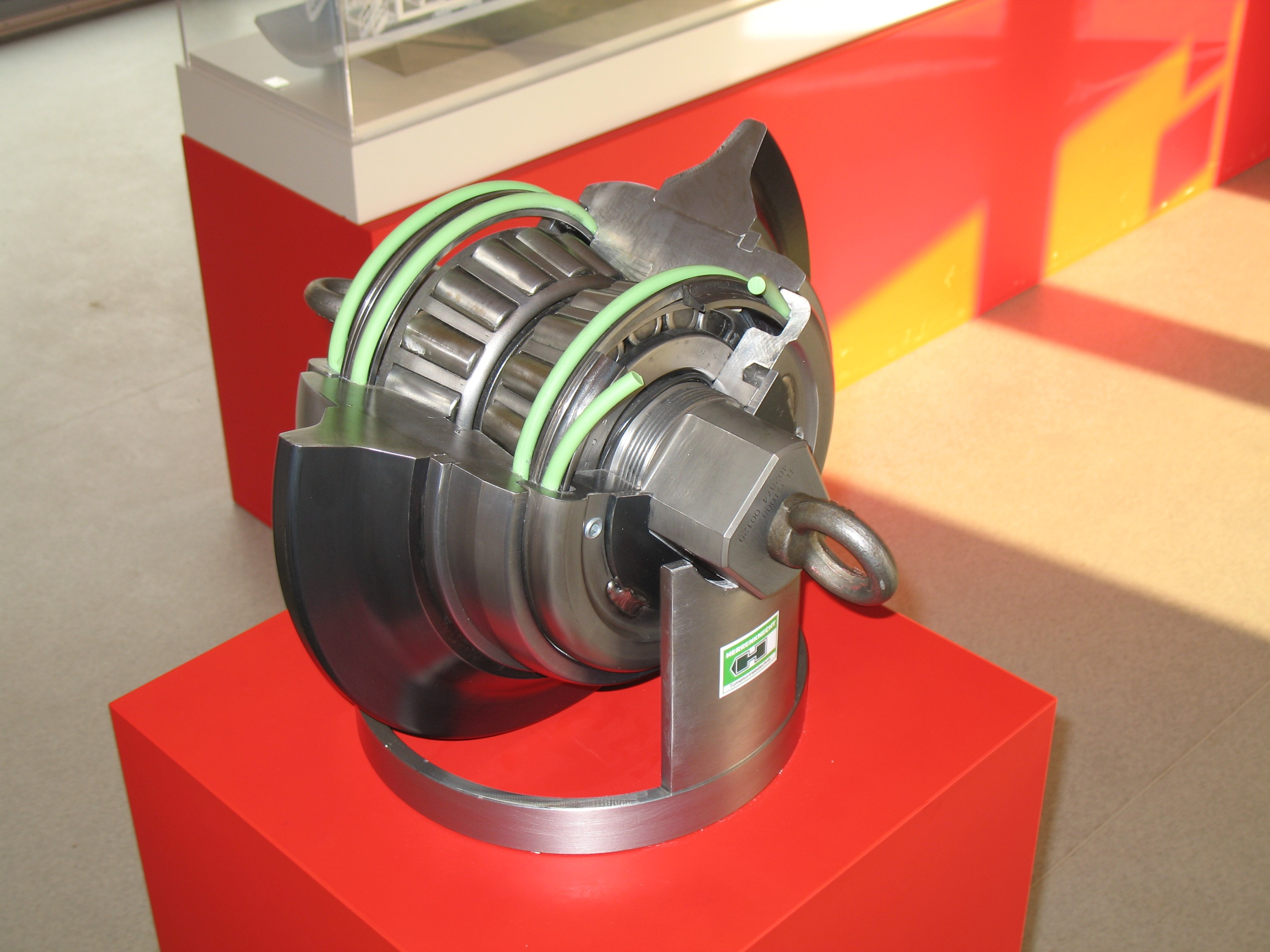 Cutting disk of a Herrenknecht TBM